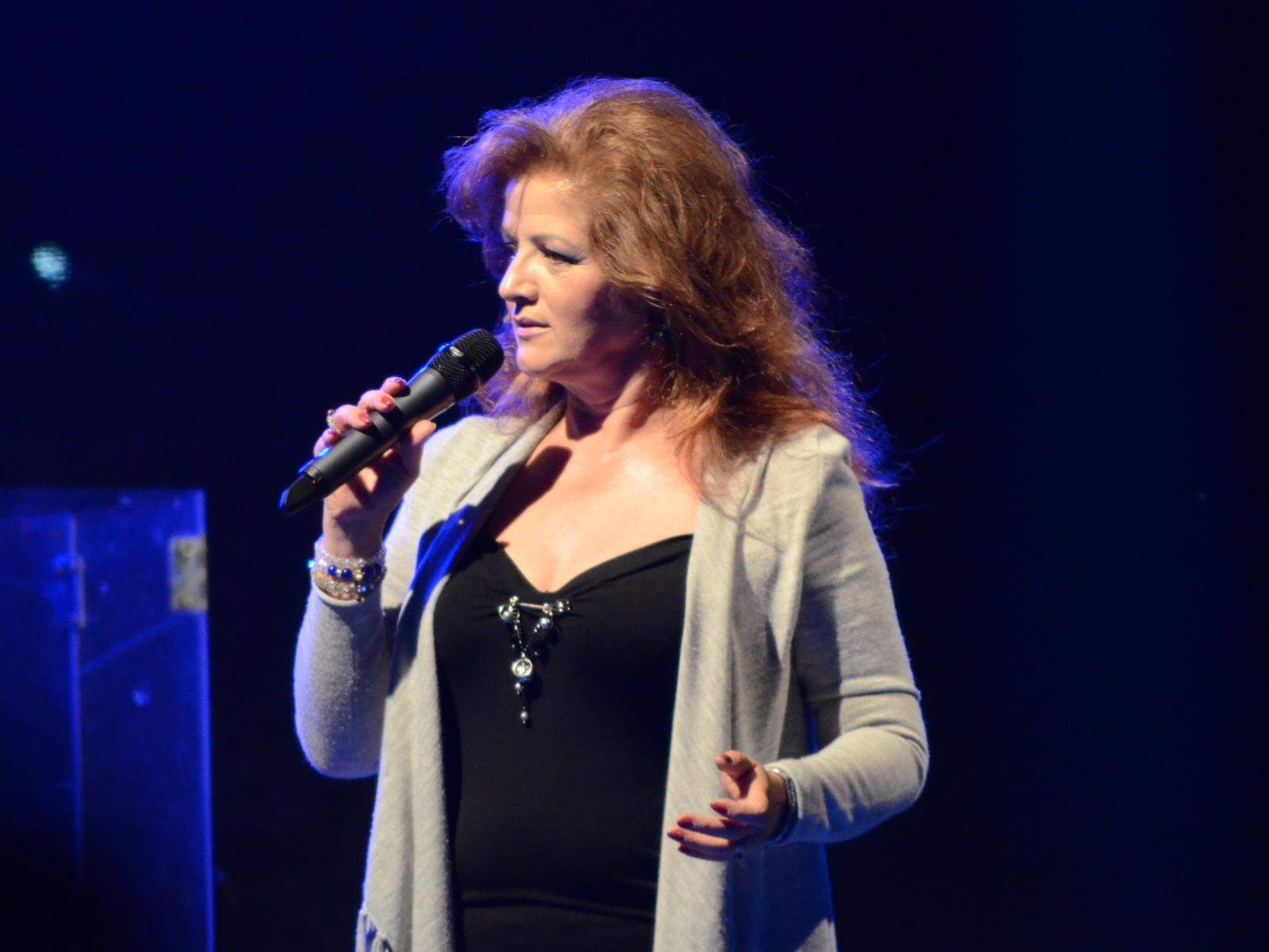 Singer Carmen Rădulescu (in May 2015)